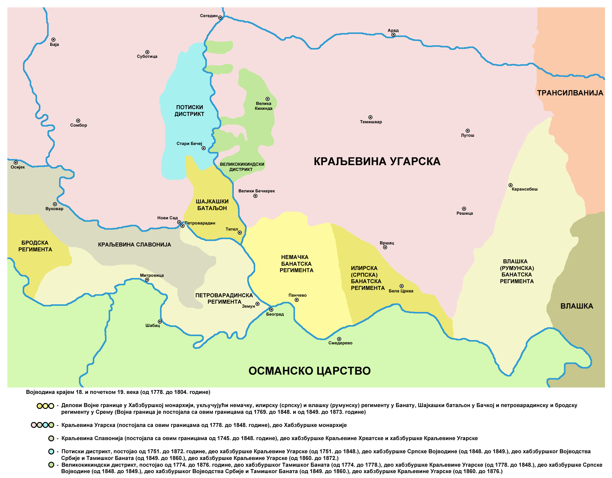 Location of the District of Potisje, District of Velika Kikinda, Šajkaš Battalion, and Banatian and Slavonian military frontier in Vojvodina (18th-19th century).